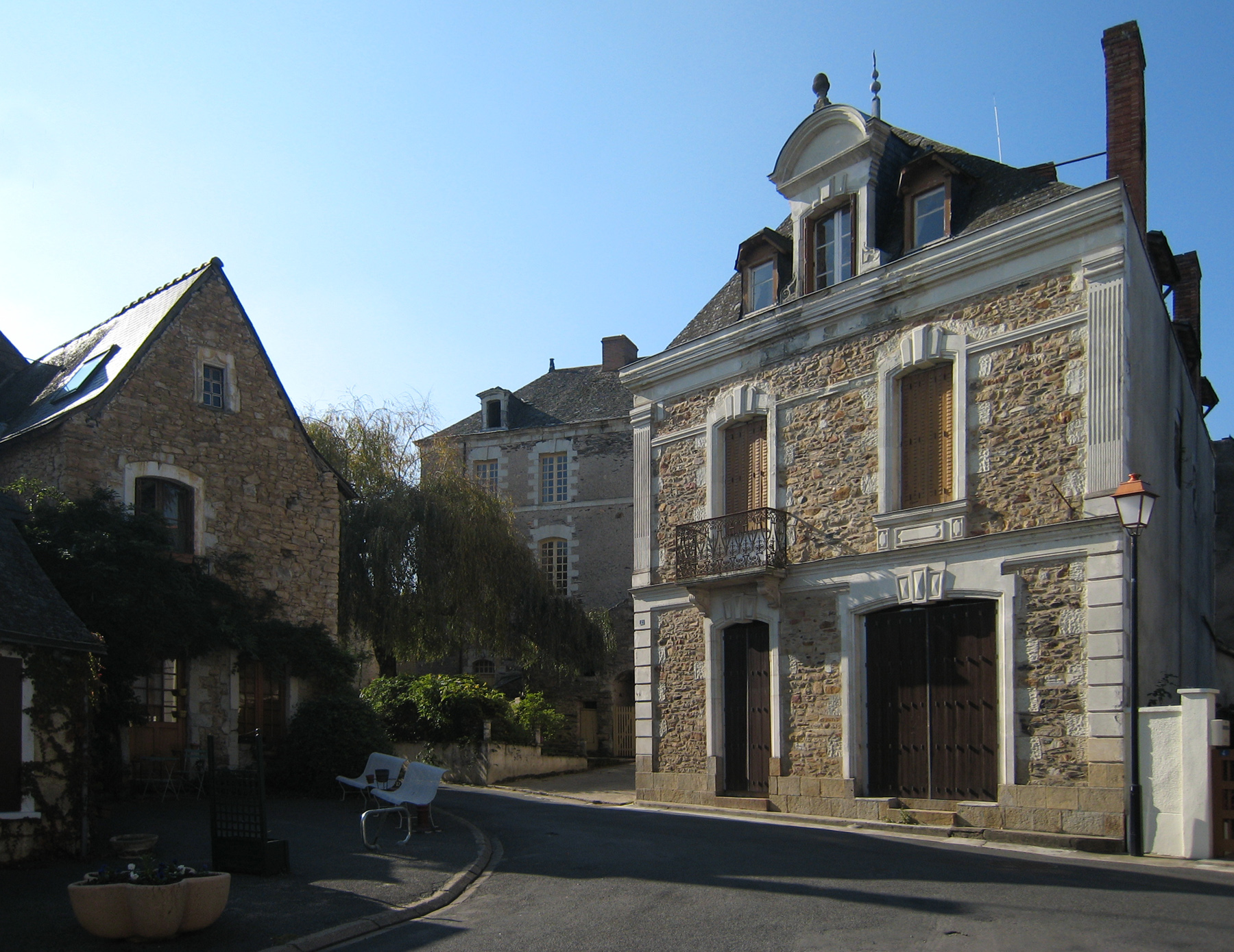 Grez-Neuville, community on the river Mayenne in the département of Maine-et-Loire in the Region Pays de la Loire in France; ancient houses opposite the church in Grez.